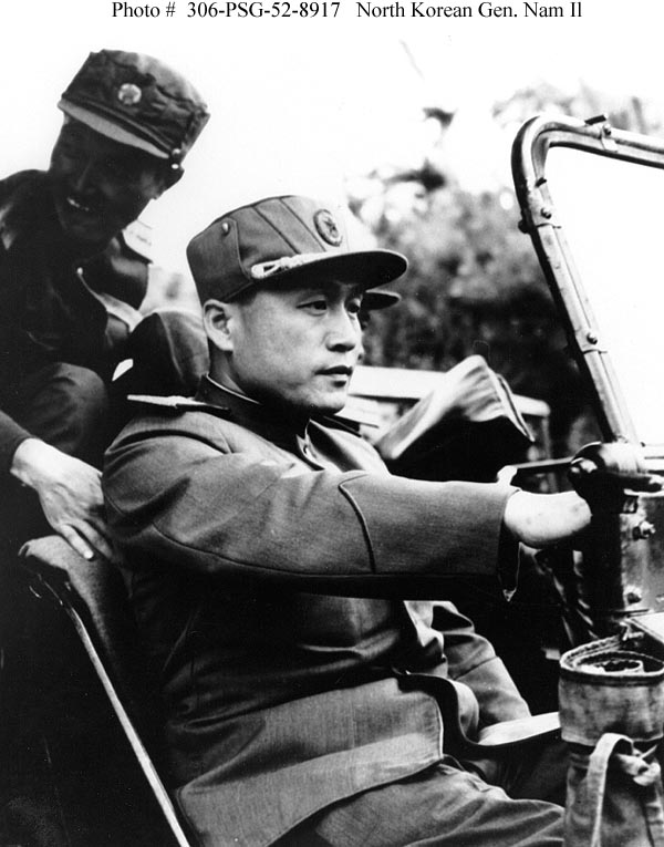 Nam Il, General of the North Korean Army